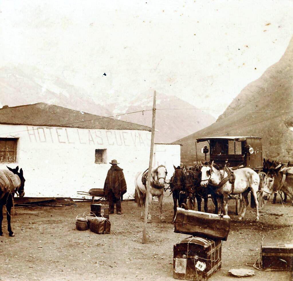 Hotel Las Cuevas, located near Uspallata, Mendoza Province of Argentina.